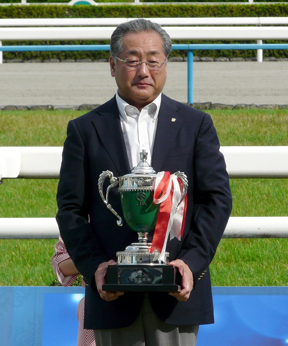 Norio-Fujisawa20110710